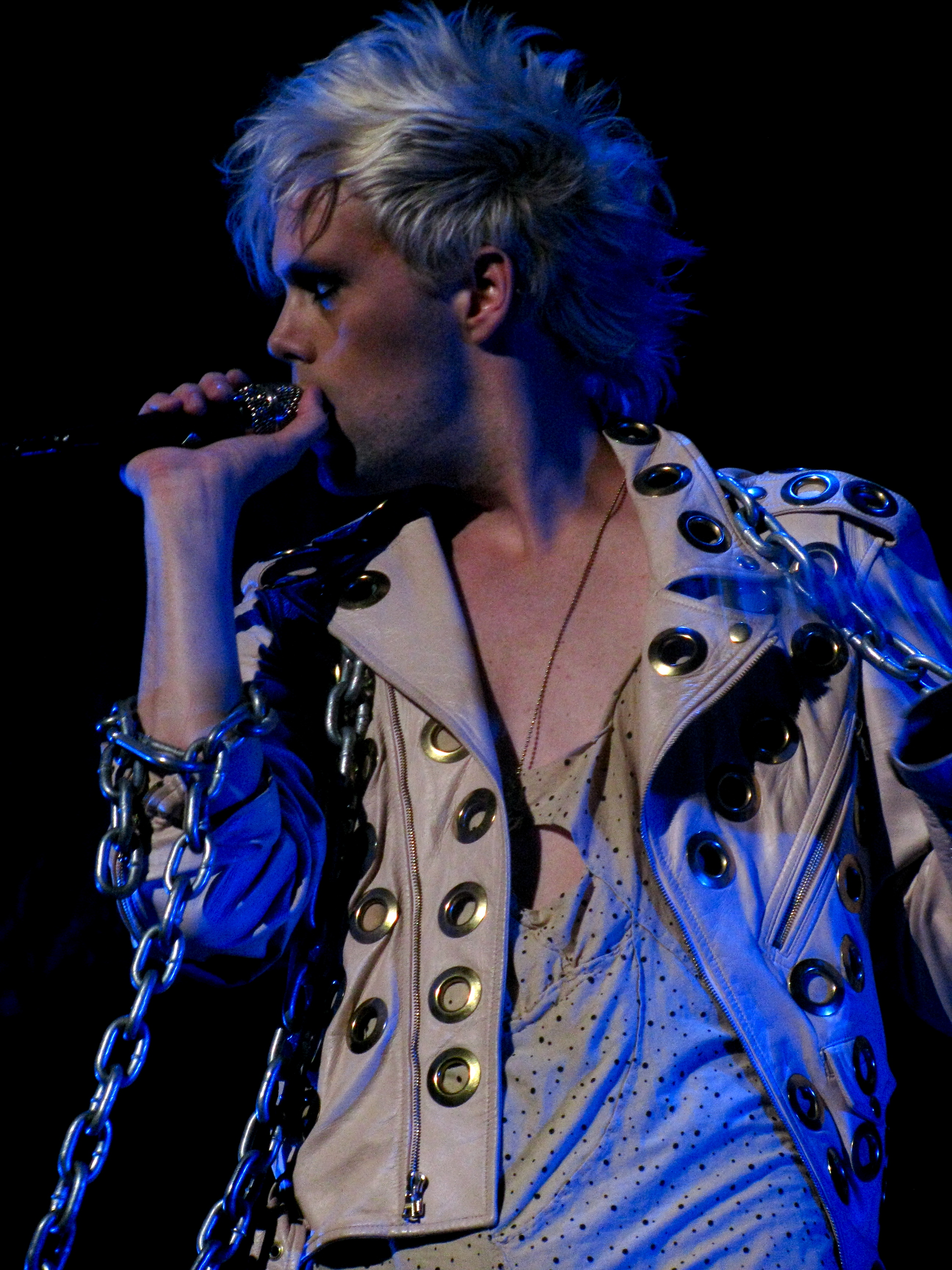 Justin Tranter